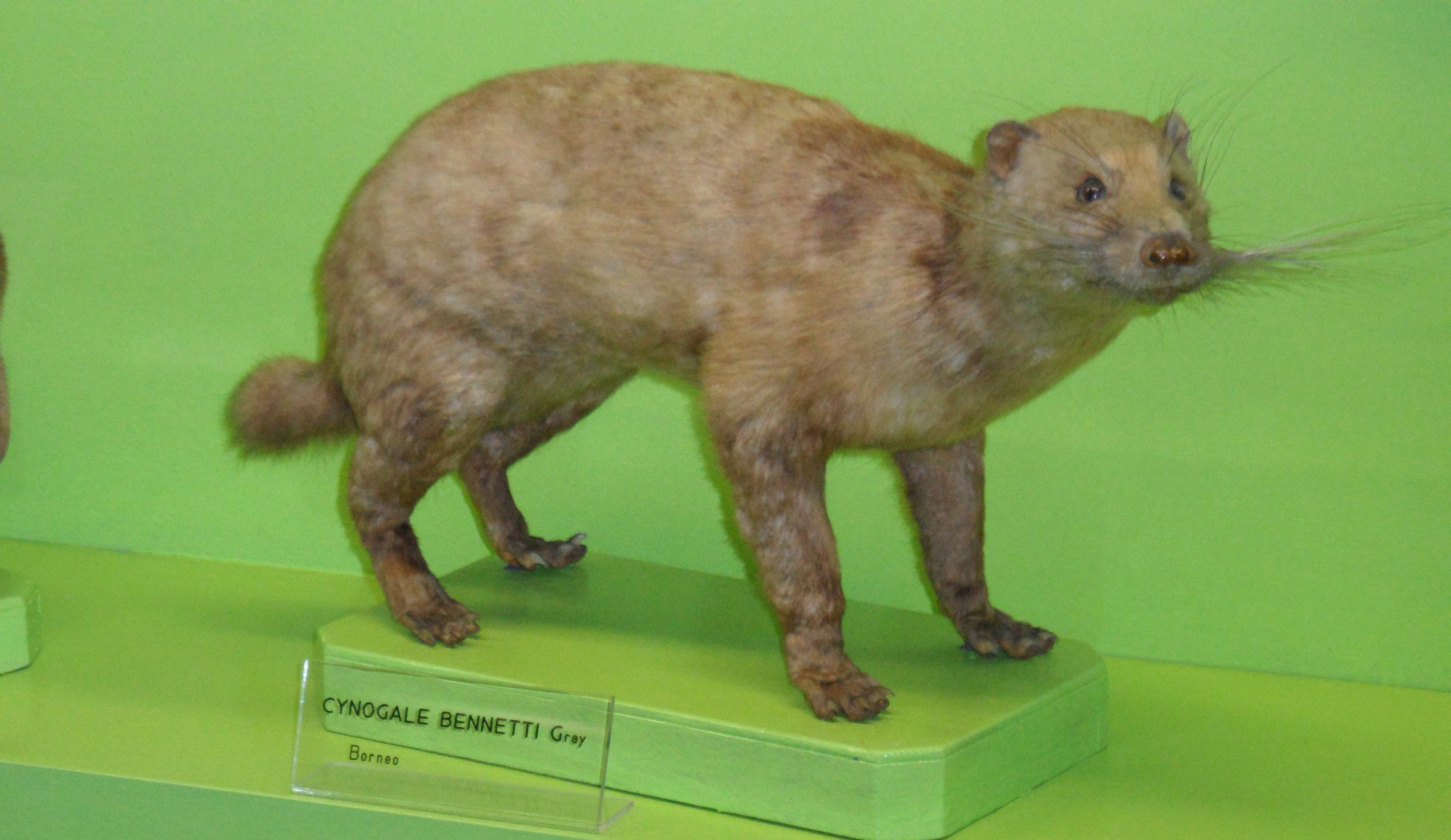 Otter-civet or mampalon on display in the Natural History Museum of Genoa